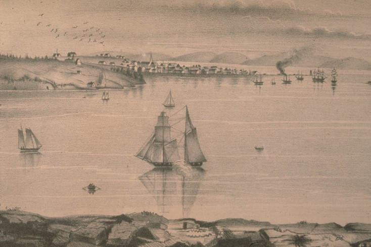 View of St. Andrews, New Brunswick, Canada. Lithograph on wove paper.